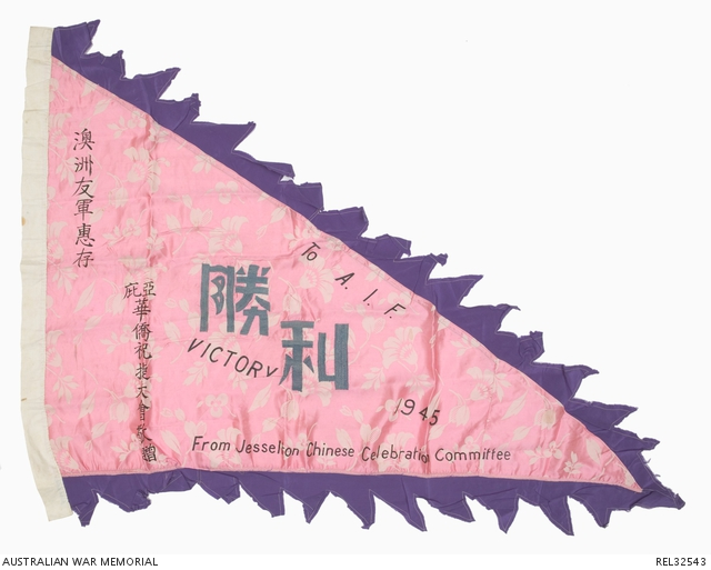 Triangular flag made from pink brocaded silk. The flag has a white cotton hoist and is edged with purple rayon cut with a series of triangular edges. Hand embroidered in the centre in green cotton are large Chinese characters translated as 'Peace' and 'Victory'. Running down the flag towards the hoist are Chinese characters in black paint which read 'To the friendly Australian Army from the Jesselton Chinese Celebration Committee'. Along the top and bottom of the flag is the English text 'To A.I.F.' and 'From Jesselton Chinese Celebration Committee'. The words 'VICTORY 1945' are painted in the middle. This presentation flag was made by members of the Jesselton Chinese Celebration Committee and presented to NX41507 Lieutenant (Lt) Arthur Raymond James during a ceremony held to mark the end of the war. Jesselton, a town in North Borneo, had a significant Chinese population and Lt James accepted the flag as the only Australian officer present at the ceremony, albeit in an unofficial capacity. James was born in Sydney in August 1916 and enlisted in the Australian Army on 31 July 1941. Towards the end of war he was serving as part of 9 Division with 2/106 General Transport Company and participated in the initial landing on Labuan in June 1945. From there he was sent to Jessleton and attended the Chinese celebrations after the cesastion of hostilities. He was discharged from 1 Armoured Brigade Company, Australian Army Service Corps on 29 March 1946.